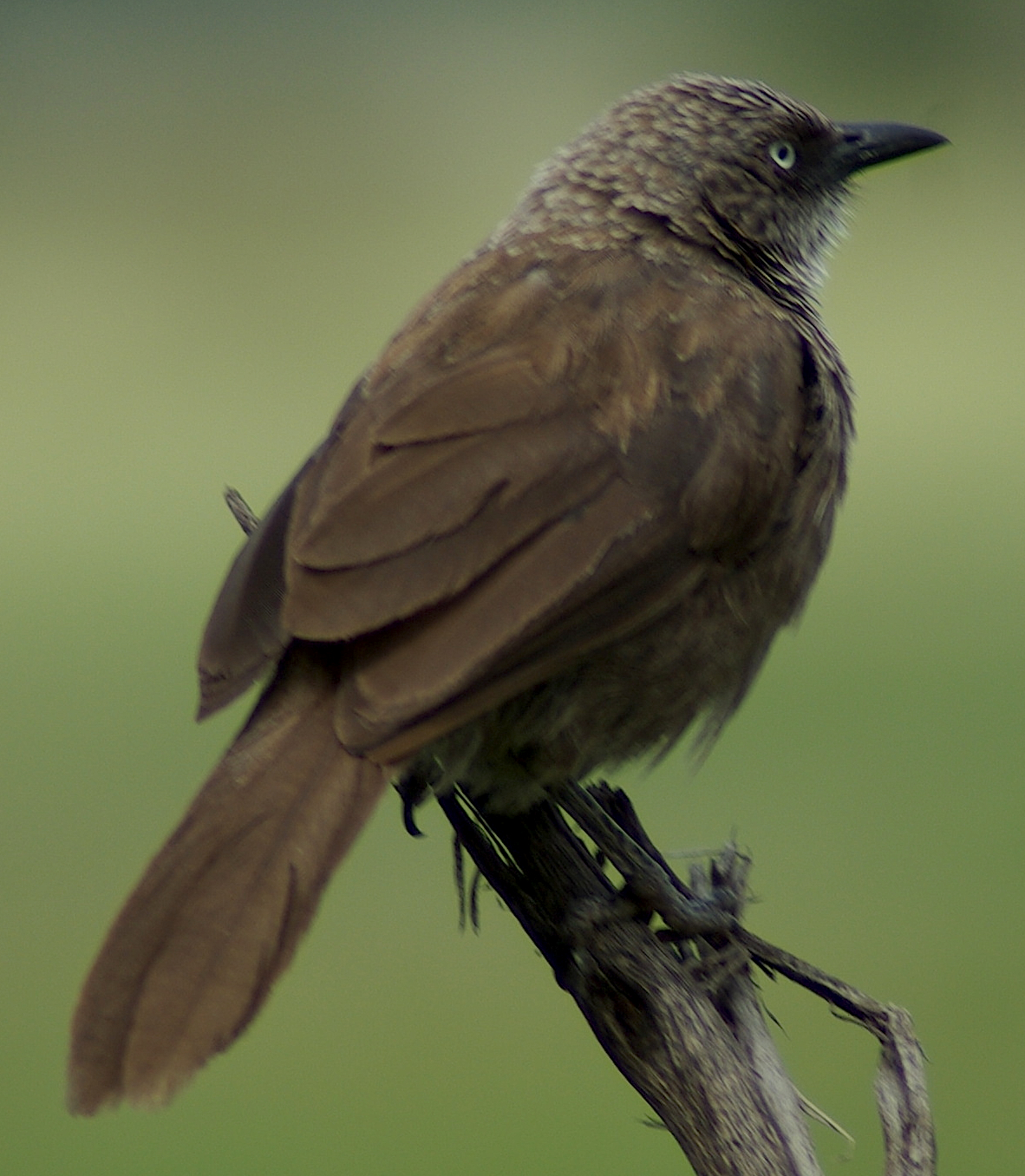 Black-lored Babbler, Turdoides sharpei vepres or Turdoides melanops vepres or maybe T. m. sharpei, Sweetwaters Tented Camp, Kenya. The time stamp is 10 hours too early.